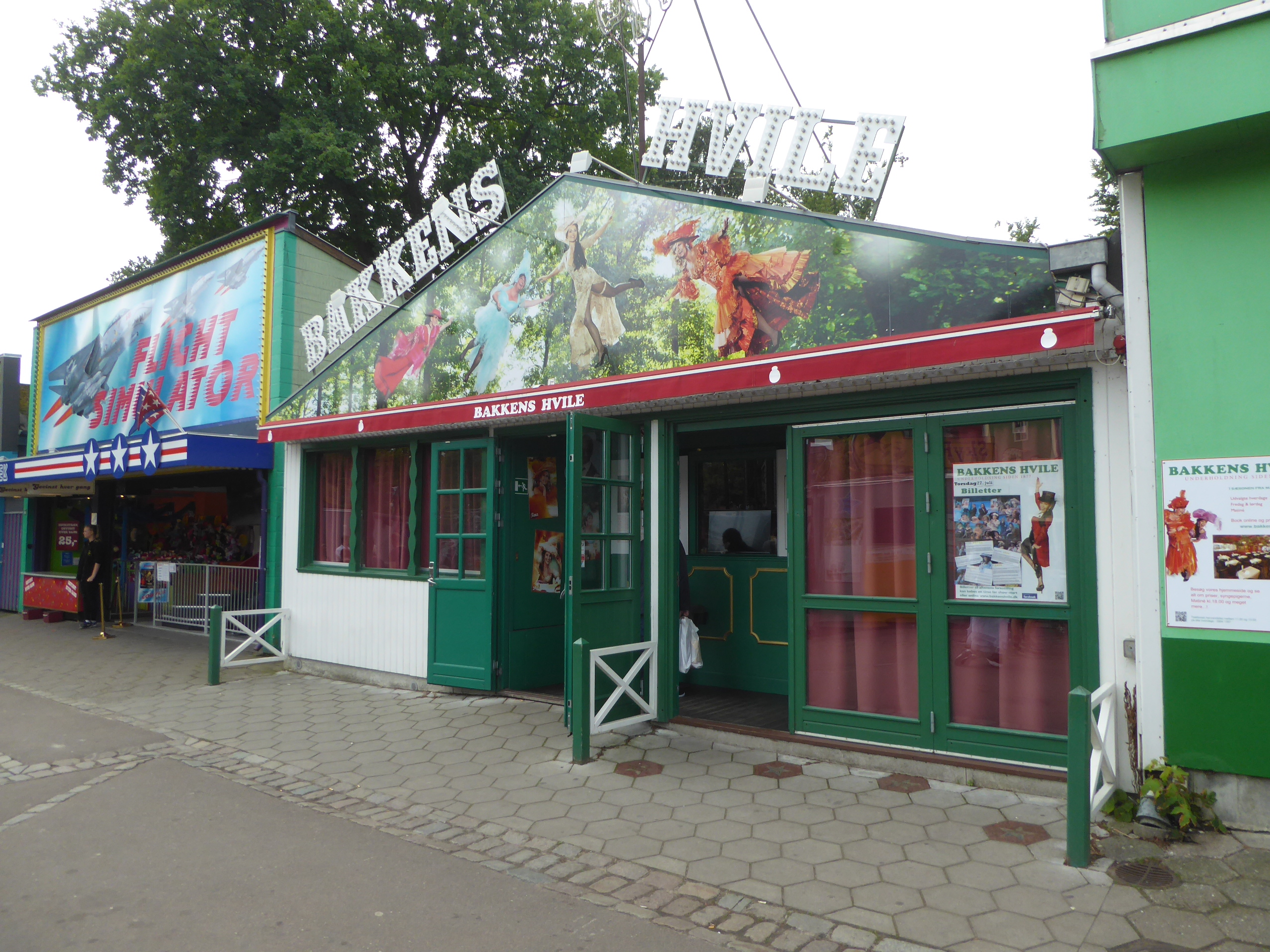 The singer pavilion Bakkens Hvile in the amusement park Bakken north of Copenhagen.